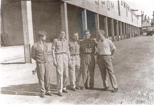 Crewmembers of the Soviet ship Nezhin (Negin) in 1957 to 1959. The crewmembers back to the ship from city. The ship Nezhin is on the right upper corner of the photo. On the photo from left to right following crewmenbers of SS NEGIN: Unknown crewmember with flowers (he was new cremember on this ship); motorman Ivan Gorbunkov; Nikolay Ionov (he is oldest of all 5 persons on the photo and he was from Moscow); motorman of stocker room (so was namtd a stoker in that years) Nikolay Grishchuk; Nikolay Pugachyov.Two of five seamen were maried on daughters of Zhukovskiy family in Odessa, weddings in 1961 and 1962 years.